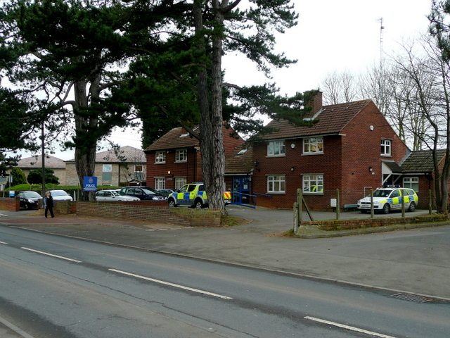 Churchdown and Innsworth Police Station On the north side of the B4063 Cheltenham Road East.